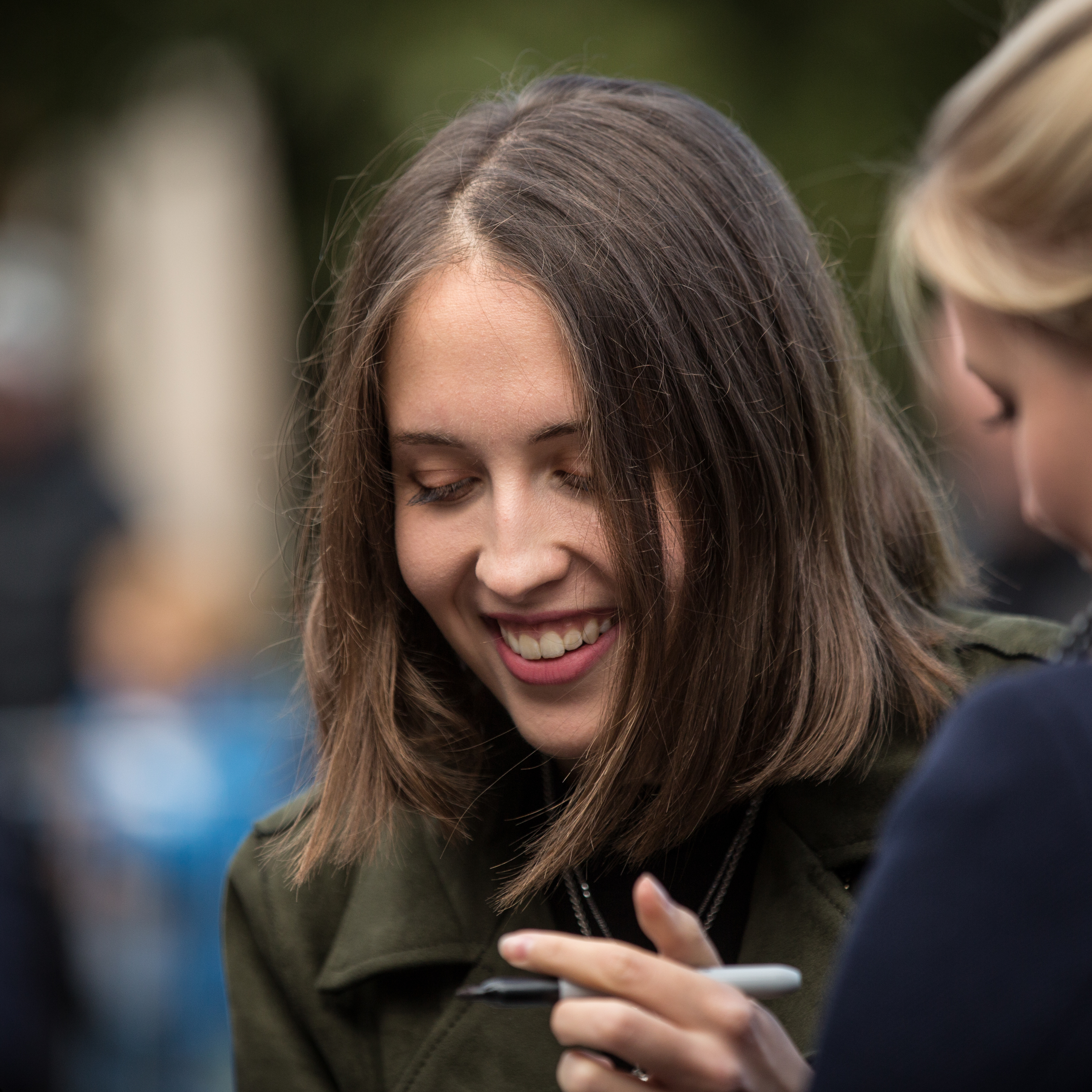 Canadian singer-songwriter Alice Merton at the SWR3 New Pop Festival 2017